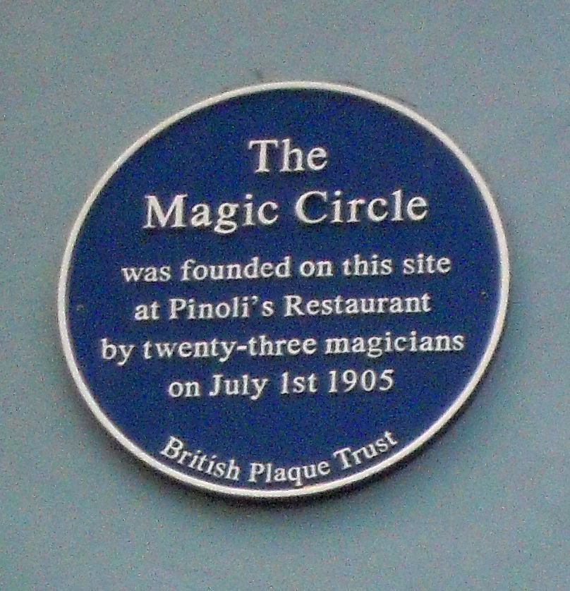 Blue plaque commemorating the founding of The Magic Circle in Gerrard Street in London This image represents an Open Plaques entry #41199.